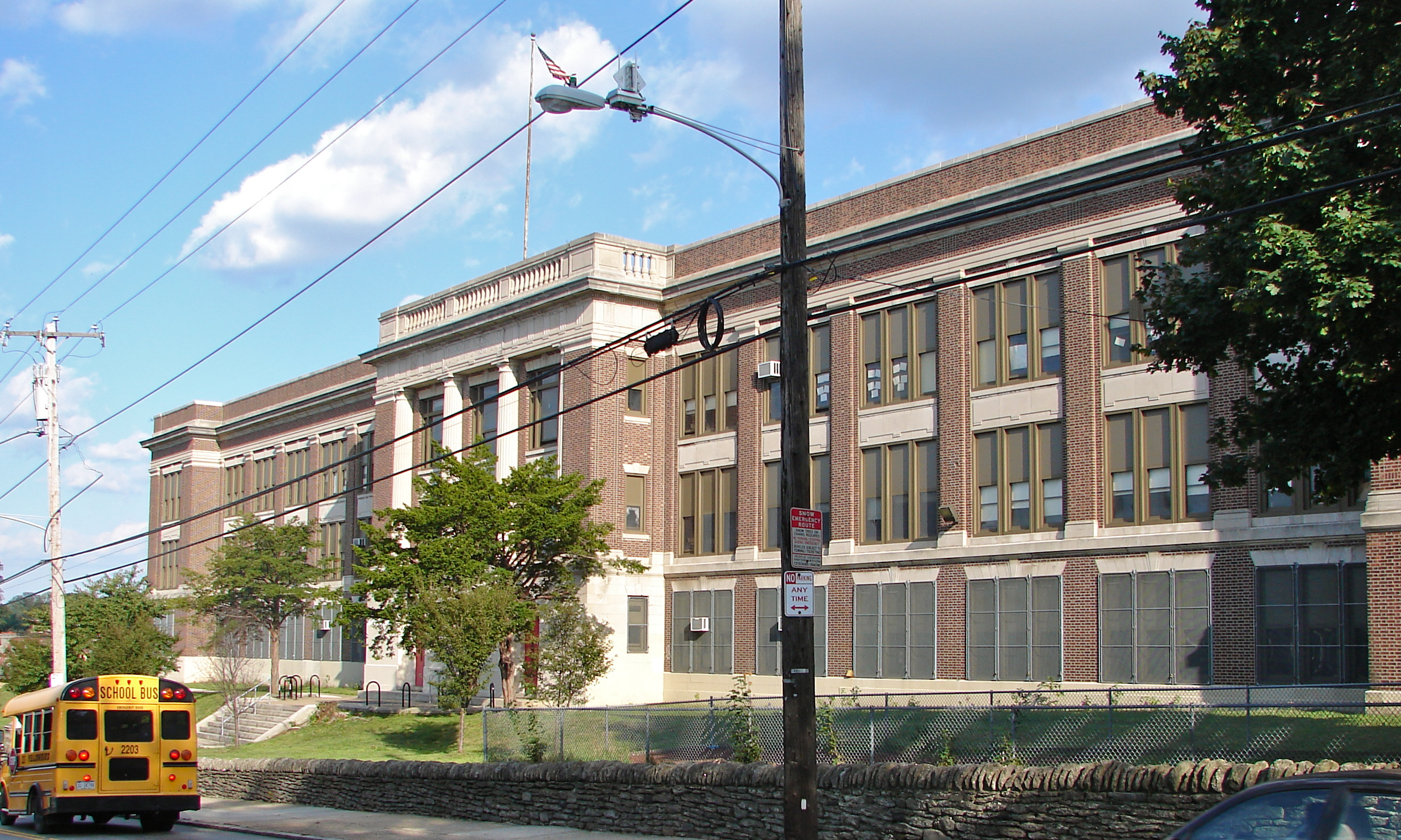 Theodore Roosevelt Junior High School in Philadelphia, on the NRHP since November 18, 1988. At 430 East Washington Lane in the Morton neighborhood of NW Philly.